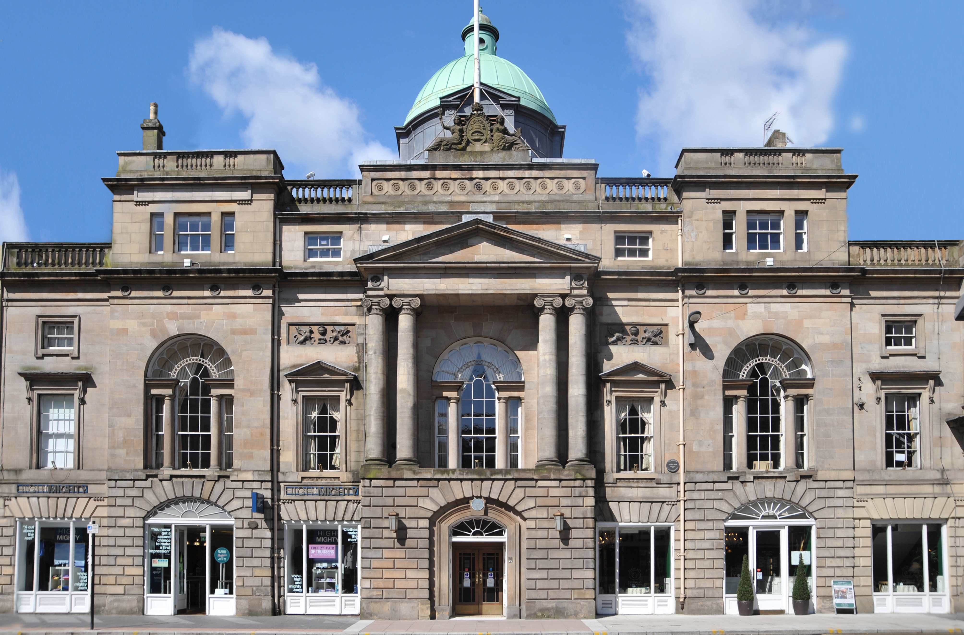 The Trades Hall, home to The Trades House of Glasgow. Can be rented by the public for weddings, conferences, exhibitions etc.